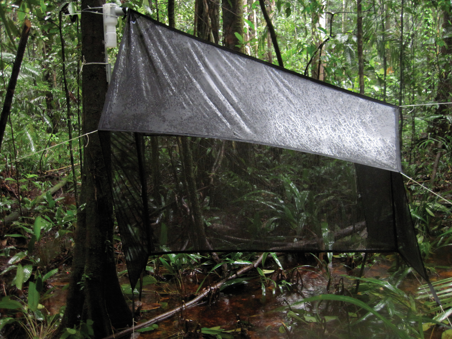 A malaise trap installed in a flooded forest of French Guiana.